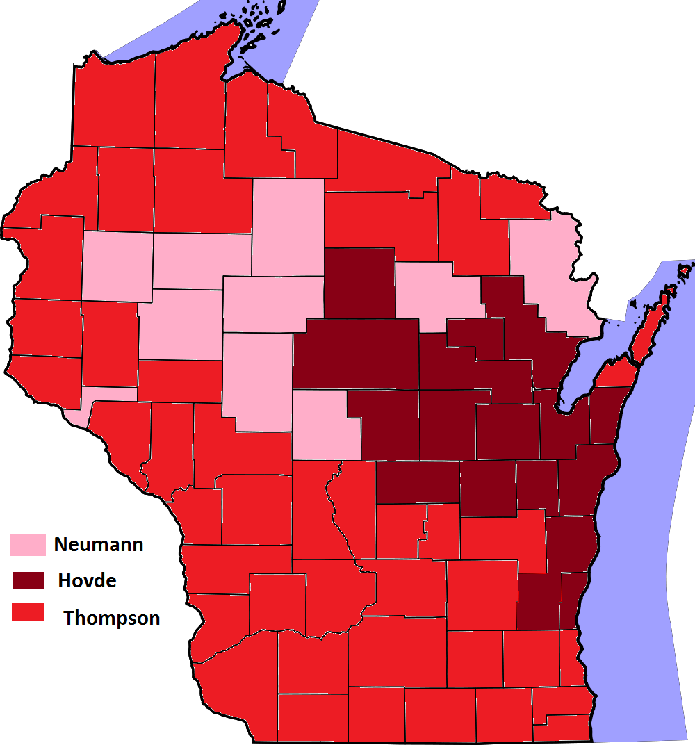 Wisconsin Republican Senatorial Primary Results, 2012